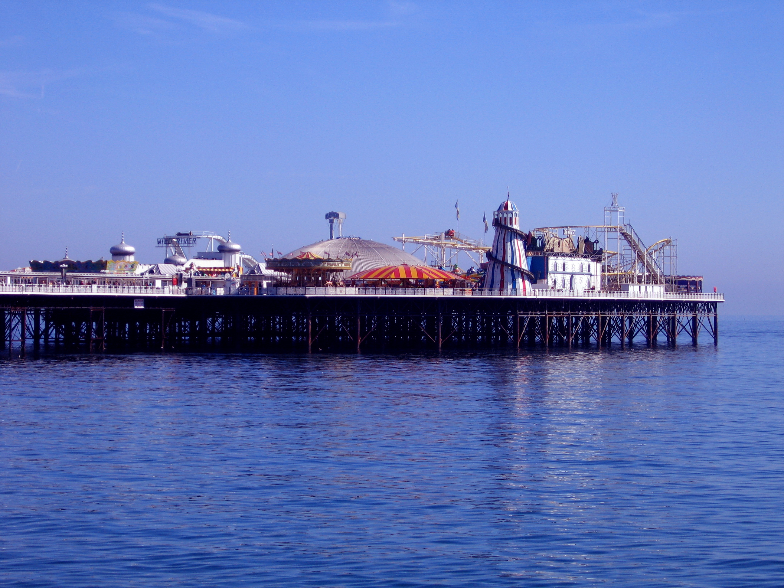 Brighton Pier